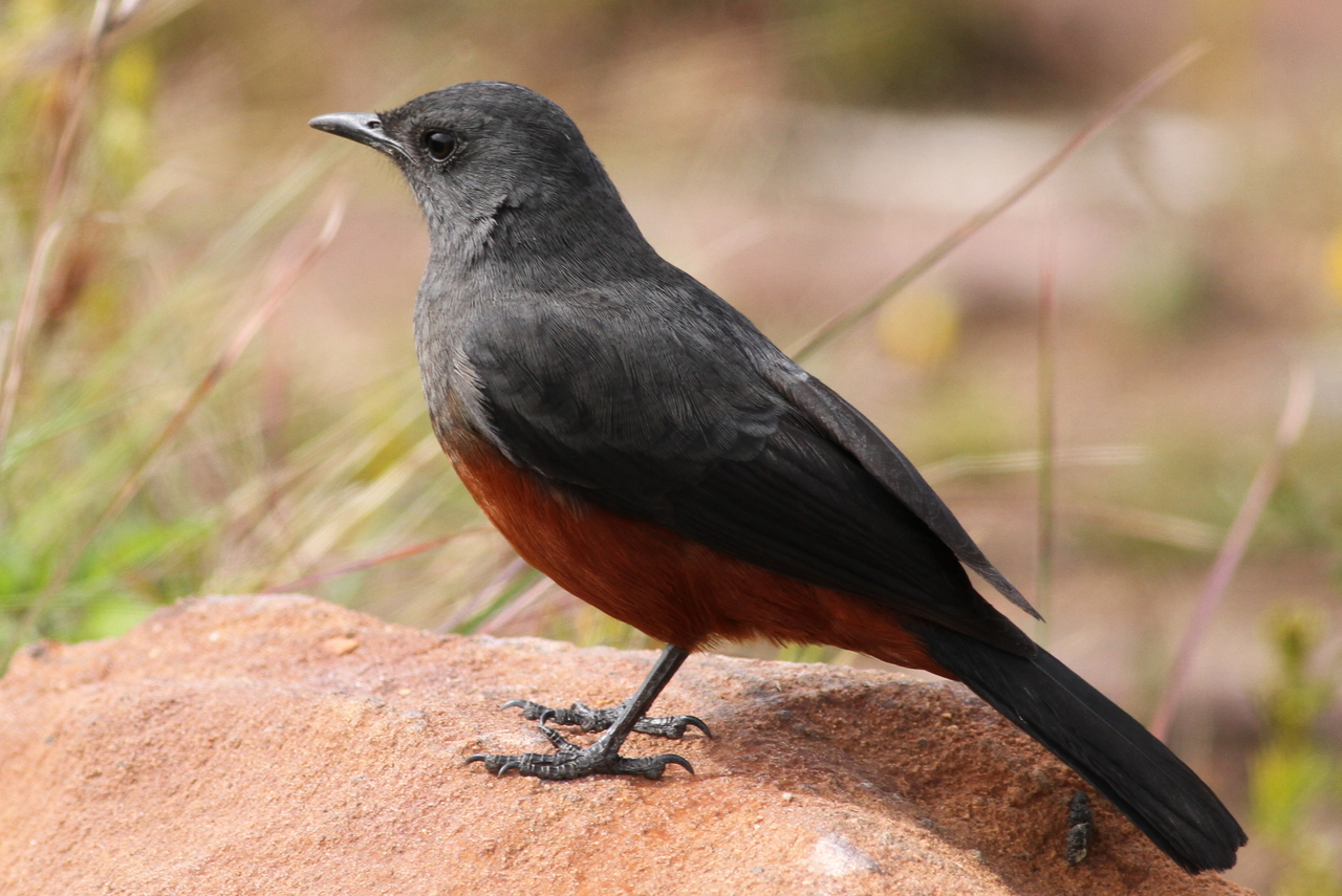 Mocking Cliff Chat, Myrmecocichla cinnamomeiventris -- female -- at Marakele National Park, South Africa